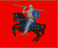 Flag of Vilnius district